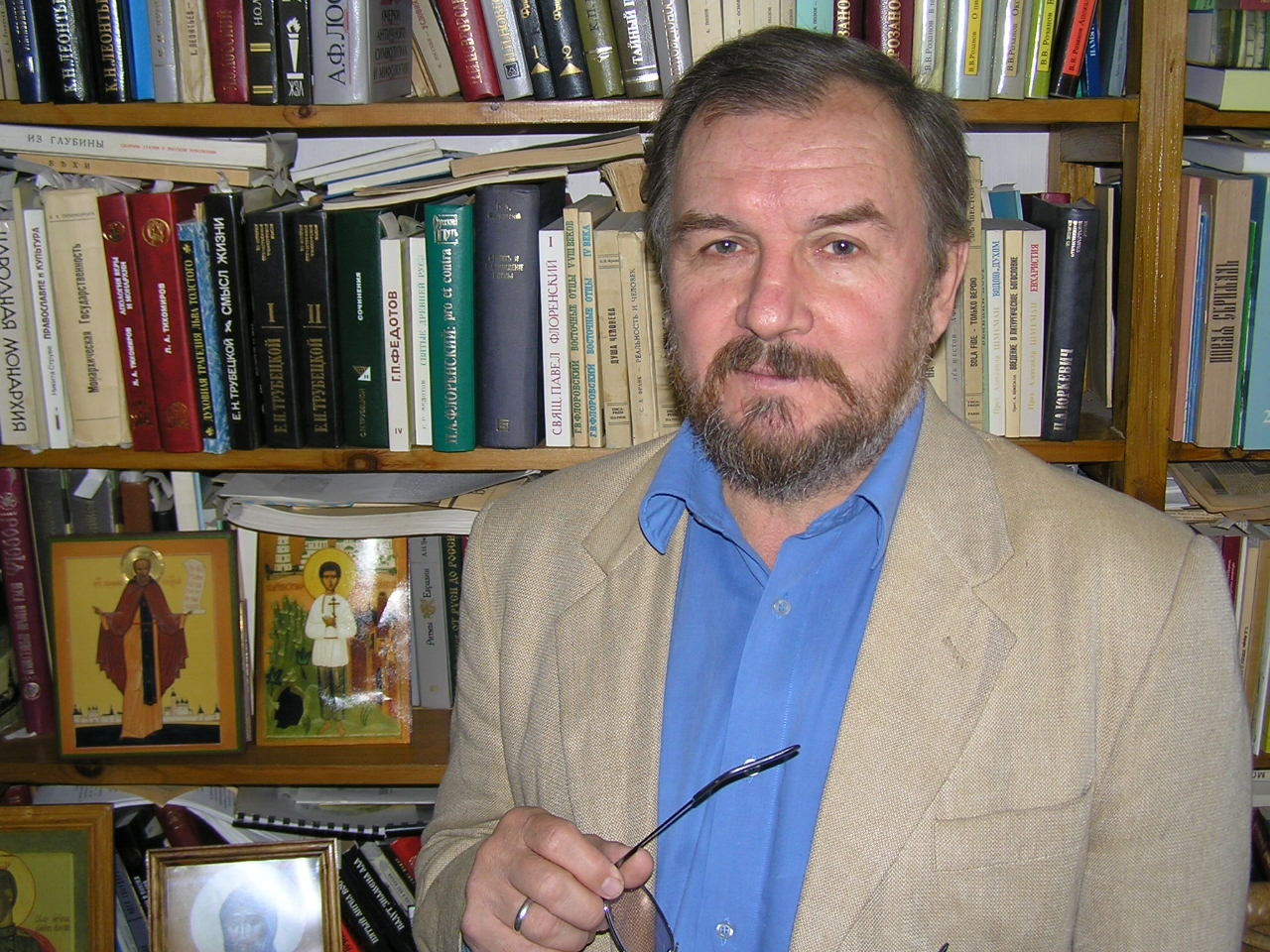 Mikhail Viktorovich Nazarov